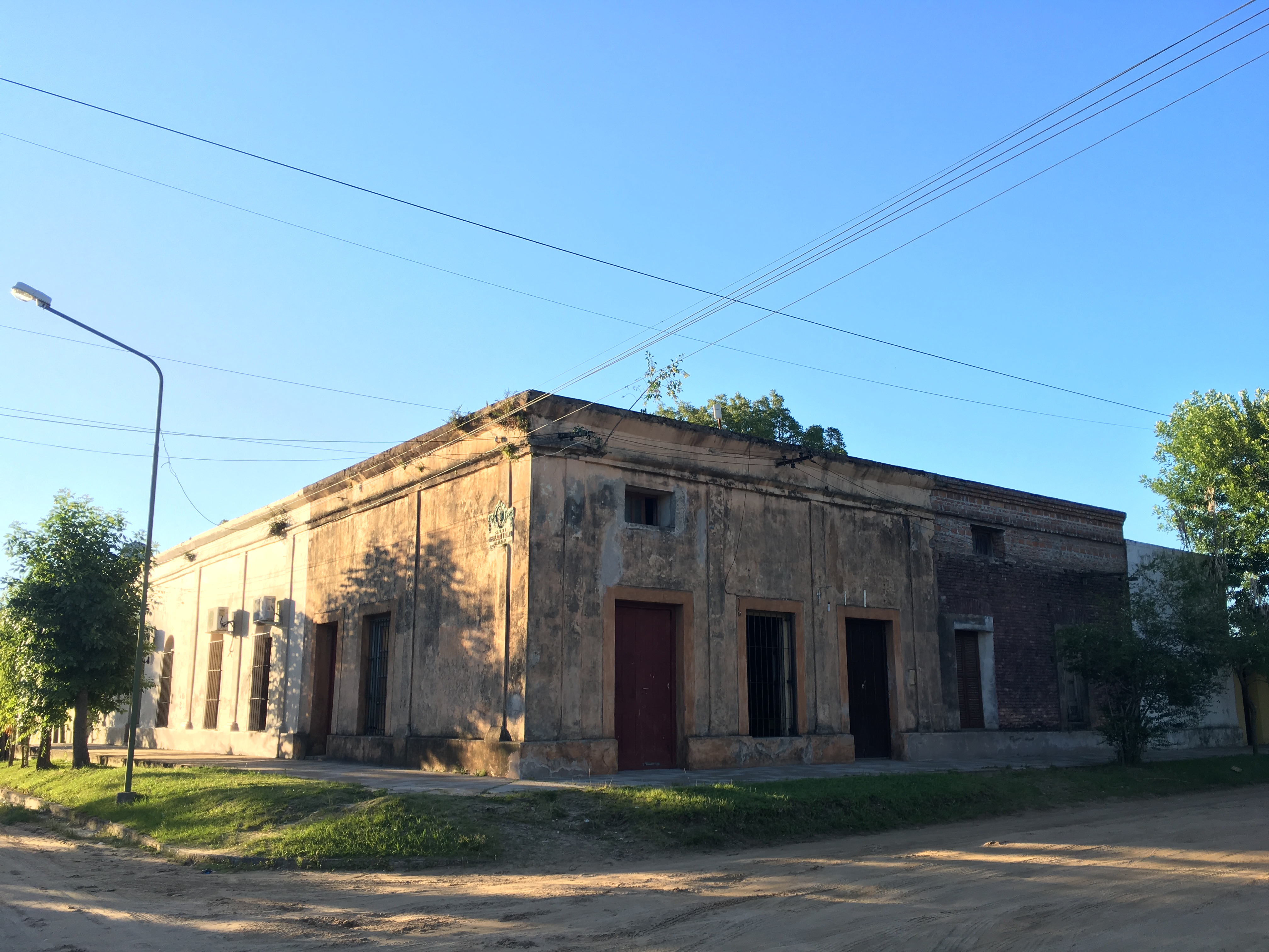 Concepción de Yaguareté Corá (Corrientes): Fue declarado Poblado Histórico Nacional por la Comisión Nacional de Monumentos por sus valores históricos, arquitectónicos y culturales. Se trabajará con el Municipio y la Provincia de Corrientes para la recuperación de varias casas históricas en el entorno de la Plaza principal con asesoramiento de la Comisión Nacional de Monumentos y mano de obra local.